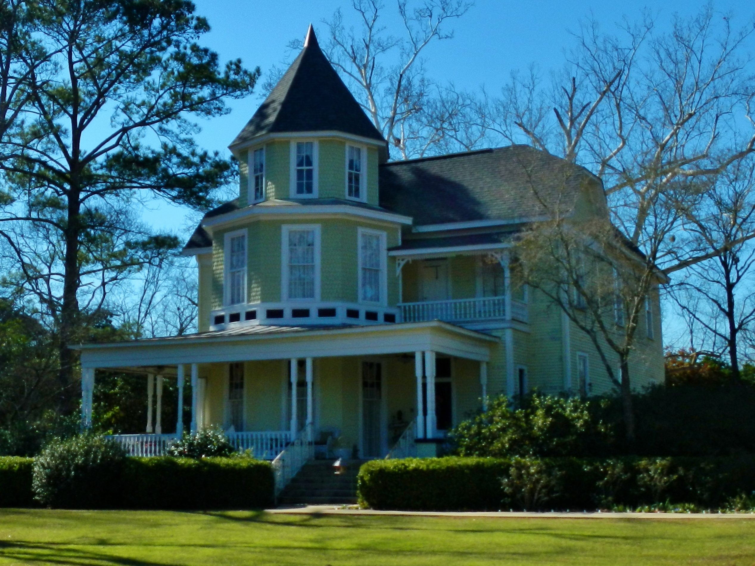 This is a photograph of the Purcell-Killingsworth House in Columbia, Alabama. This house, also known as "Traveler's Rest" was completed in 1890 by William Henry Purcell (1845-1910), a prominent Columbia business man and politician. Purcell had many business interests including a steamboat landing on the Chattahoochee River. This was the boyhood home of Bishop Clare Purcell (1884-1964) who, in 1955, was elected President of the Council of Bishops, the highest place of recognition ever achieved by a native-born Alabama Methodist minister. In 1946, the Purcell Family sold the two acre homestead to Mr. & Mrs. Henry Killingsworth who have meticulously restored this imposing Victorian mansion. It was placed on the National Register of Historic Places December 16, 1982.